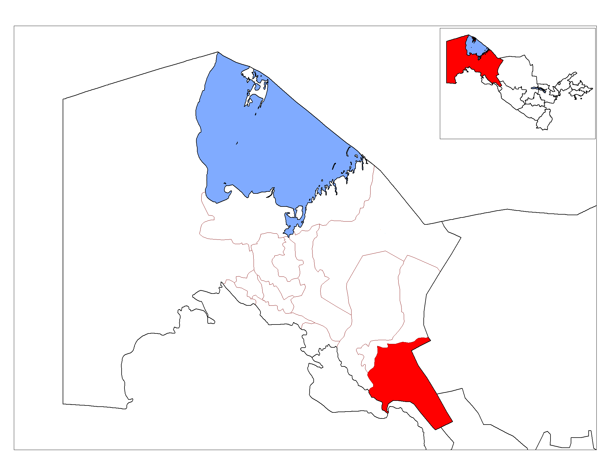 Location of To’rtko’l Disrict in Qoraqalpog’iston.